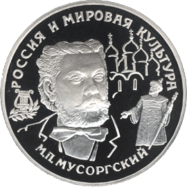 Commemorative coin - Modest Mussorgsky